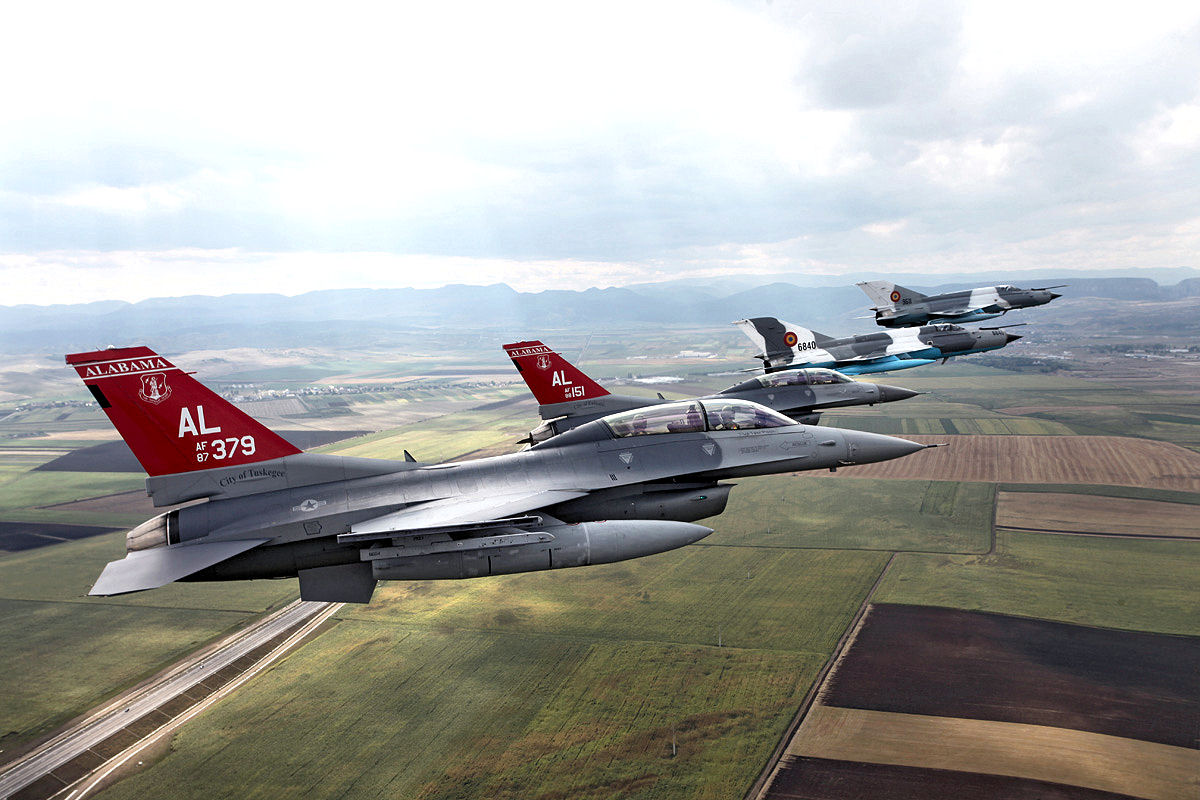 More than 150 US Air National Guardsmen from the 187th Fighter Wing, the Alabama Air National Guard unit at Dannelly Field ANGB in Montgomery, deployed to Romania in August to participate in Dacian Viper 2012, a three-week joint exercise with the Romanian Air Force.